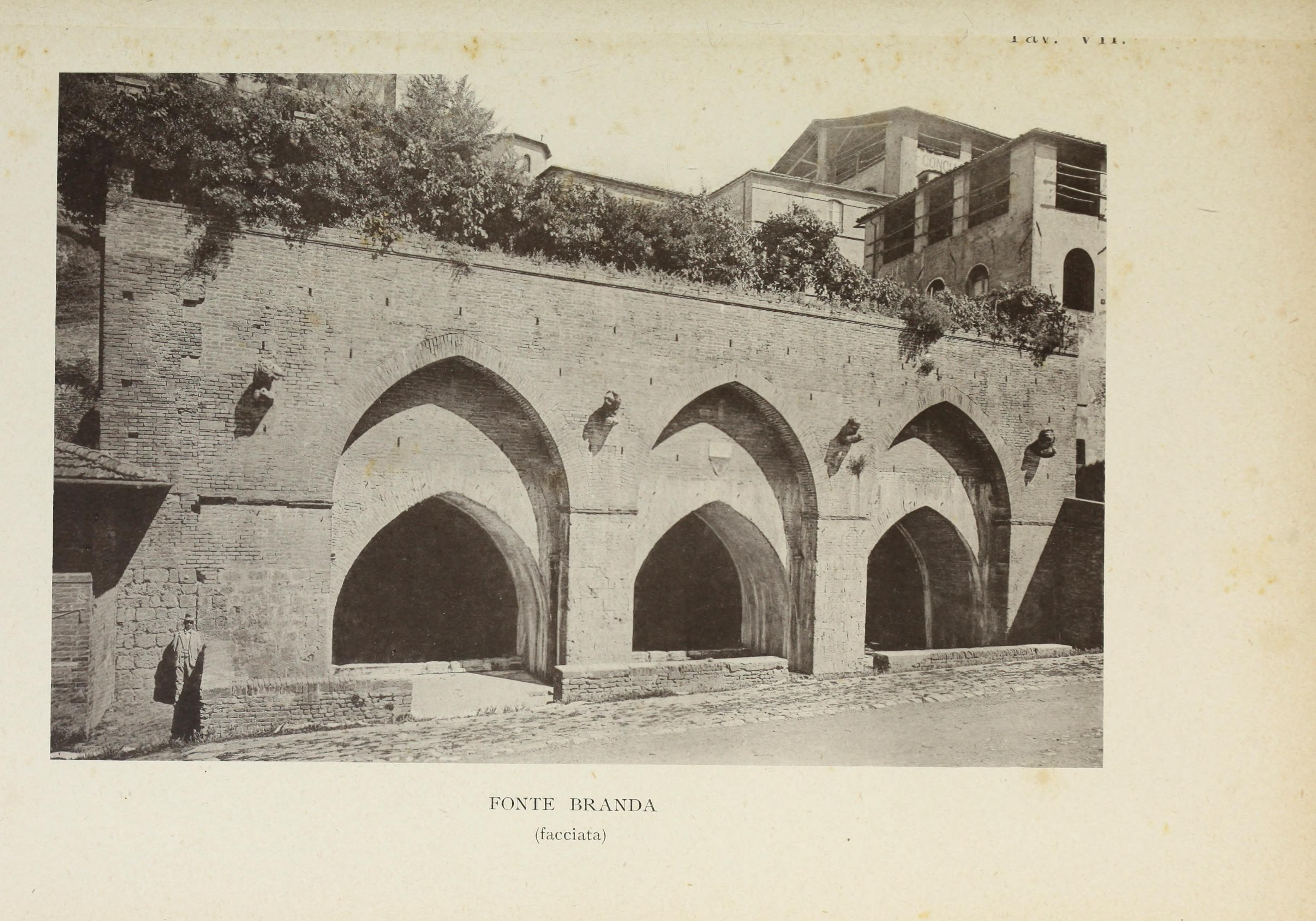 Title: Le fonti di Siena e i loro aquedotti, note storiche dalle origini fino al MDLV Year: 1906 (1900s) Authors: Bargagli Petrucci, Fabio Subjects: Fountains Aqueducts Water-supply Publisher: Siena : Olschki Text Appearing Before Image: FONTE BRANDA(Da un disegno a penna del secolo XV) Text Appearing After Image: '